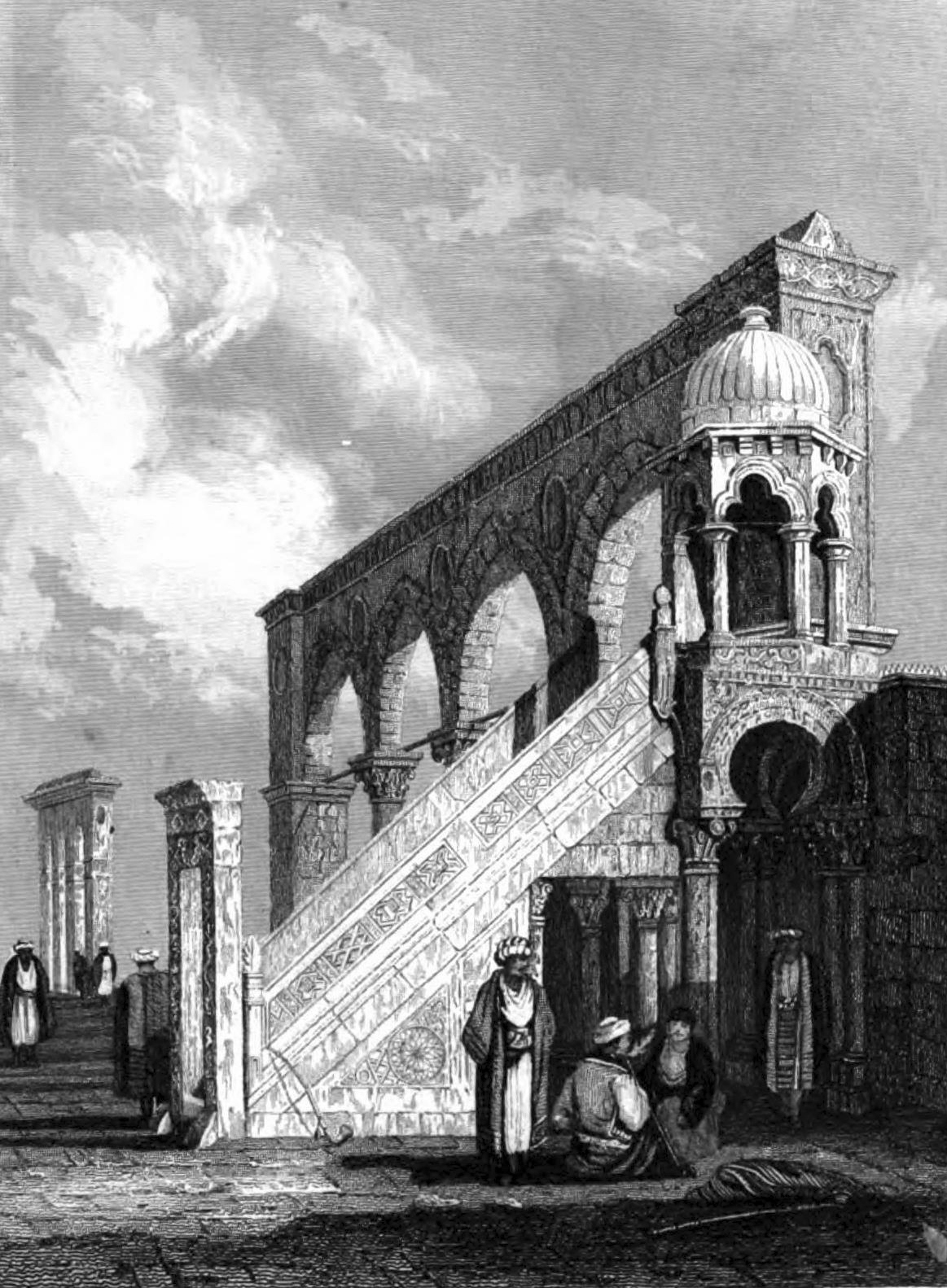 Terrace in the Al-Aqsa Mosque